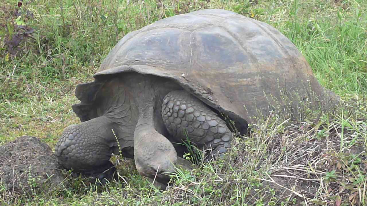 (Photographer, David Adam Kess) I took this photo on the Santa Cruz Island in the Galapagos of a World famous tortoise or Galápagos giant tortoise (Chelonoidis nigra). The Galápagos tortoise or Galápagos giant tortoise (Chelonoidis nigra) is the largest living species of tortoise and the 14th-heaviest living reptile.